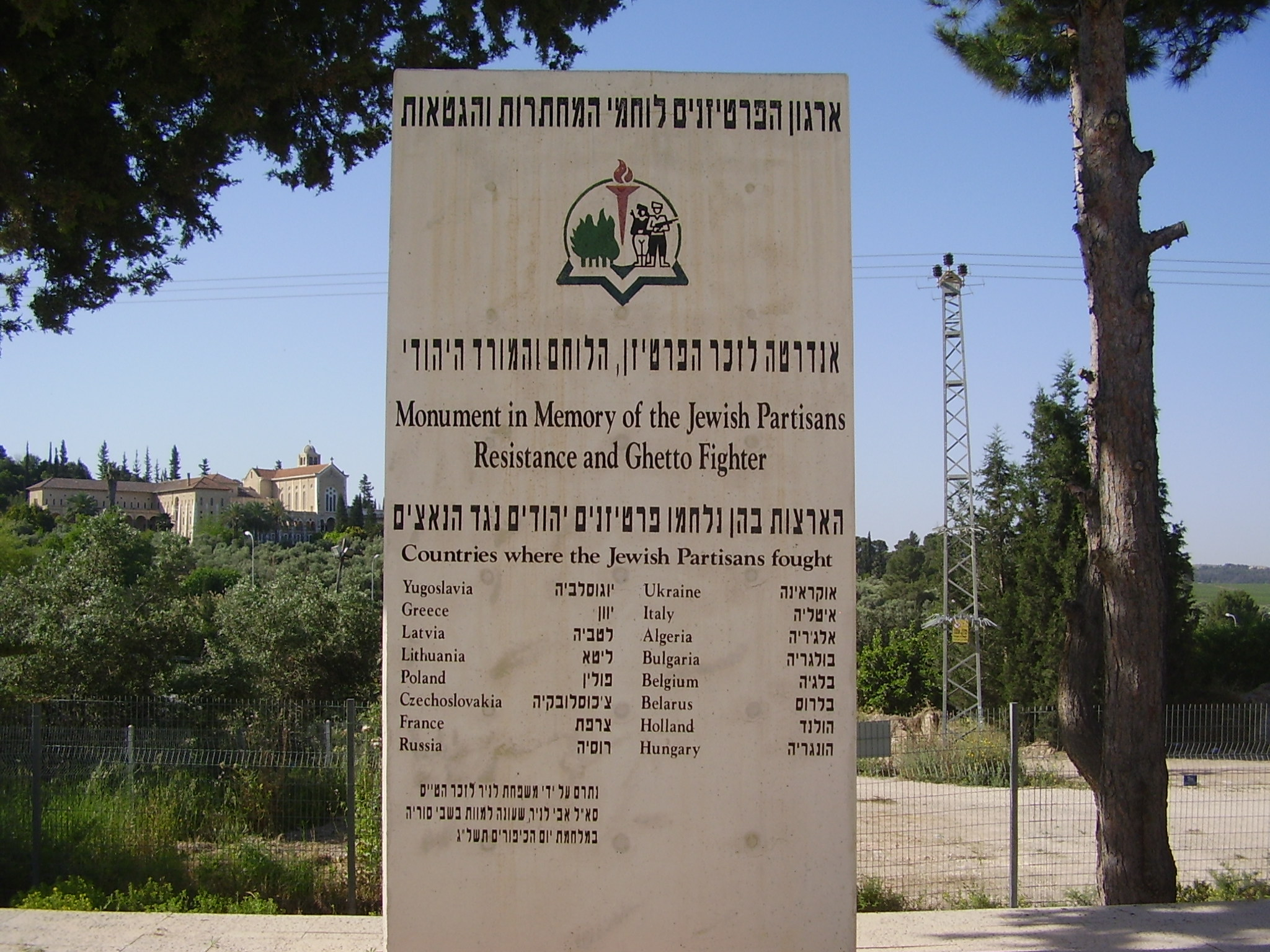 Jewish Patisans and Ghetto fighers memorial in Latrun, Israel